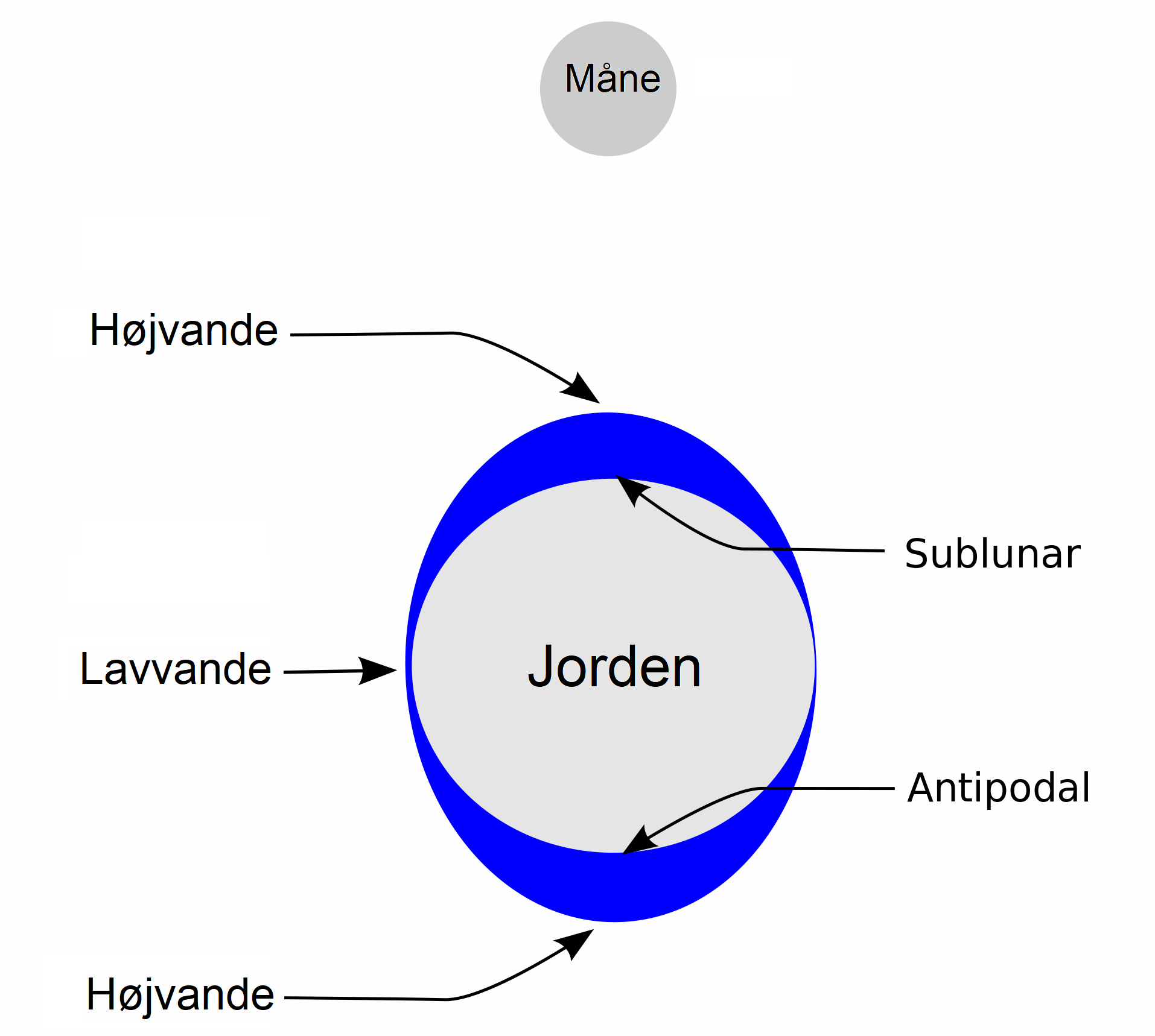 Danish version of